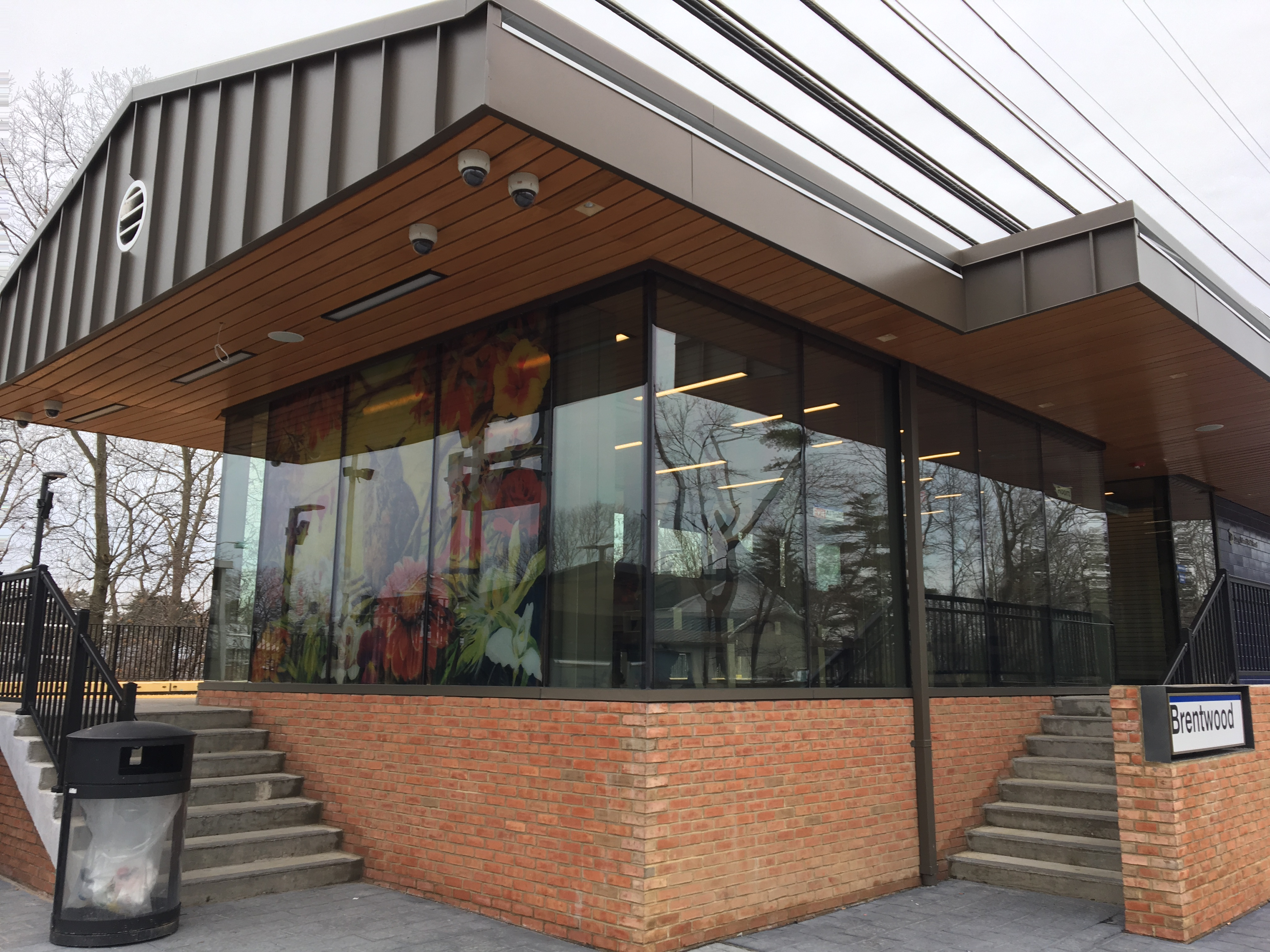 Brentwood LIRR Station - March 2019